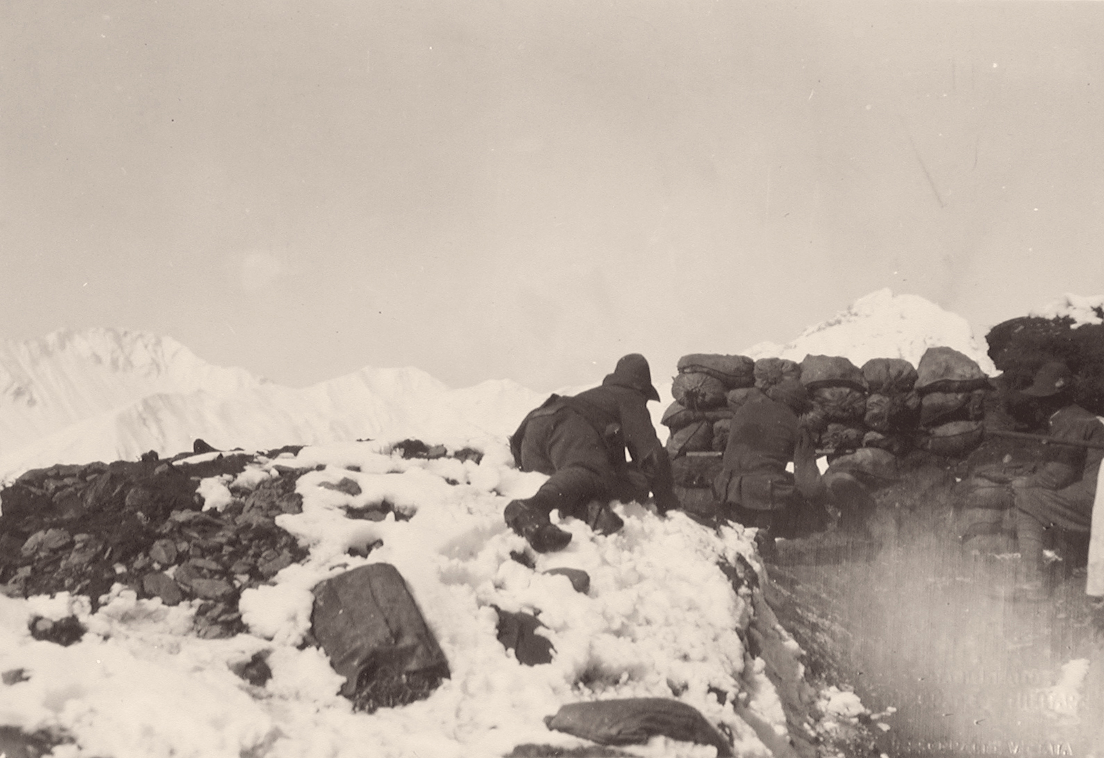 World War 1 - Italian Army: Monte Nero - summit position during winter